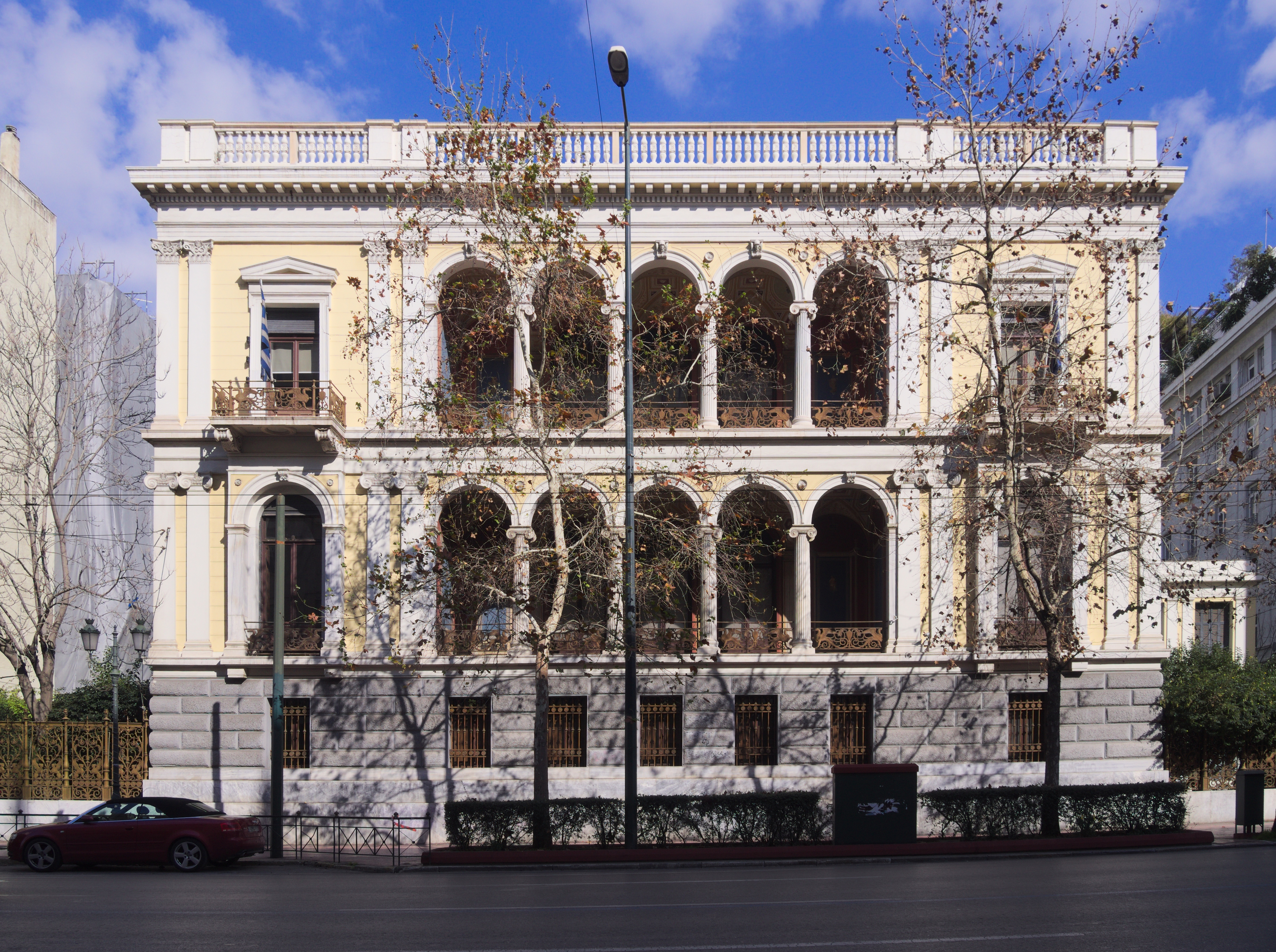 Iliou Melathron, designed by Ernst Ziller and built in 1881, the former house of Heinrich Schliemann now houses the Numismatic Museum of Athens